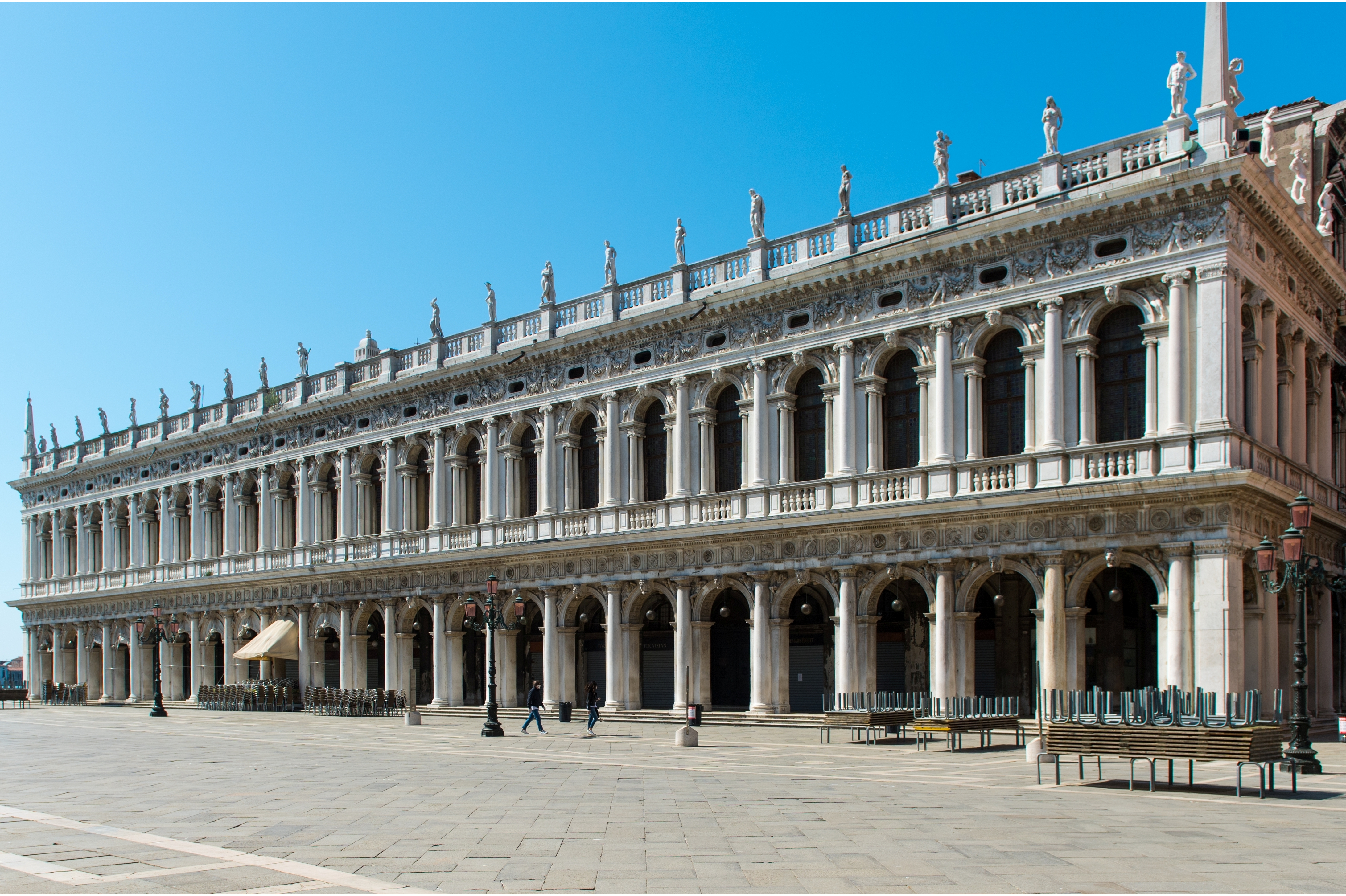 main facade of the Biblioteca Marciana